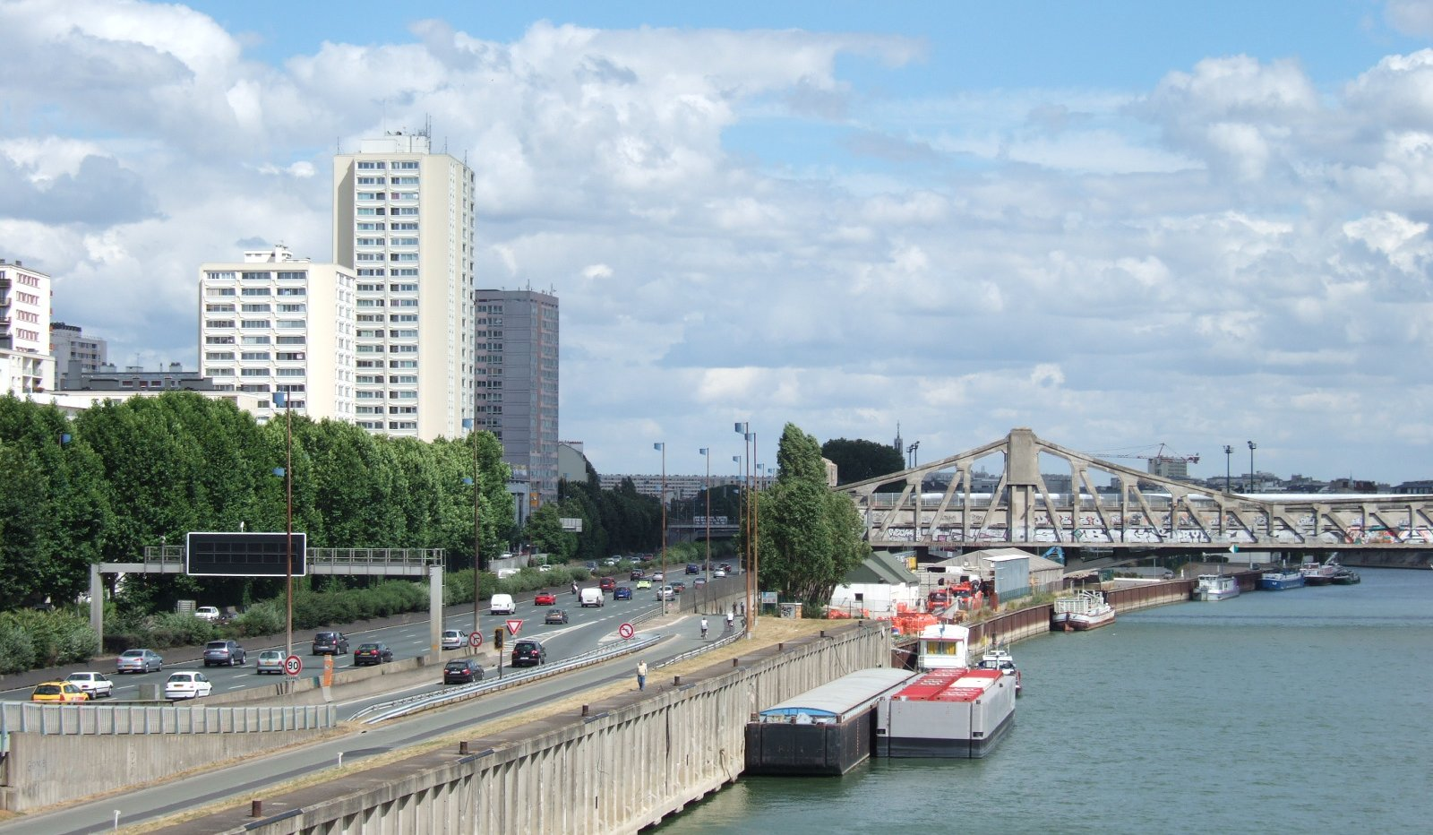 A4 in Charenton-le-Pont